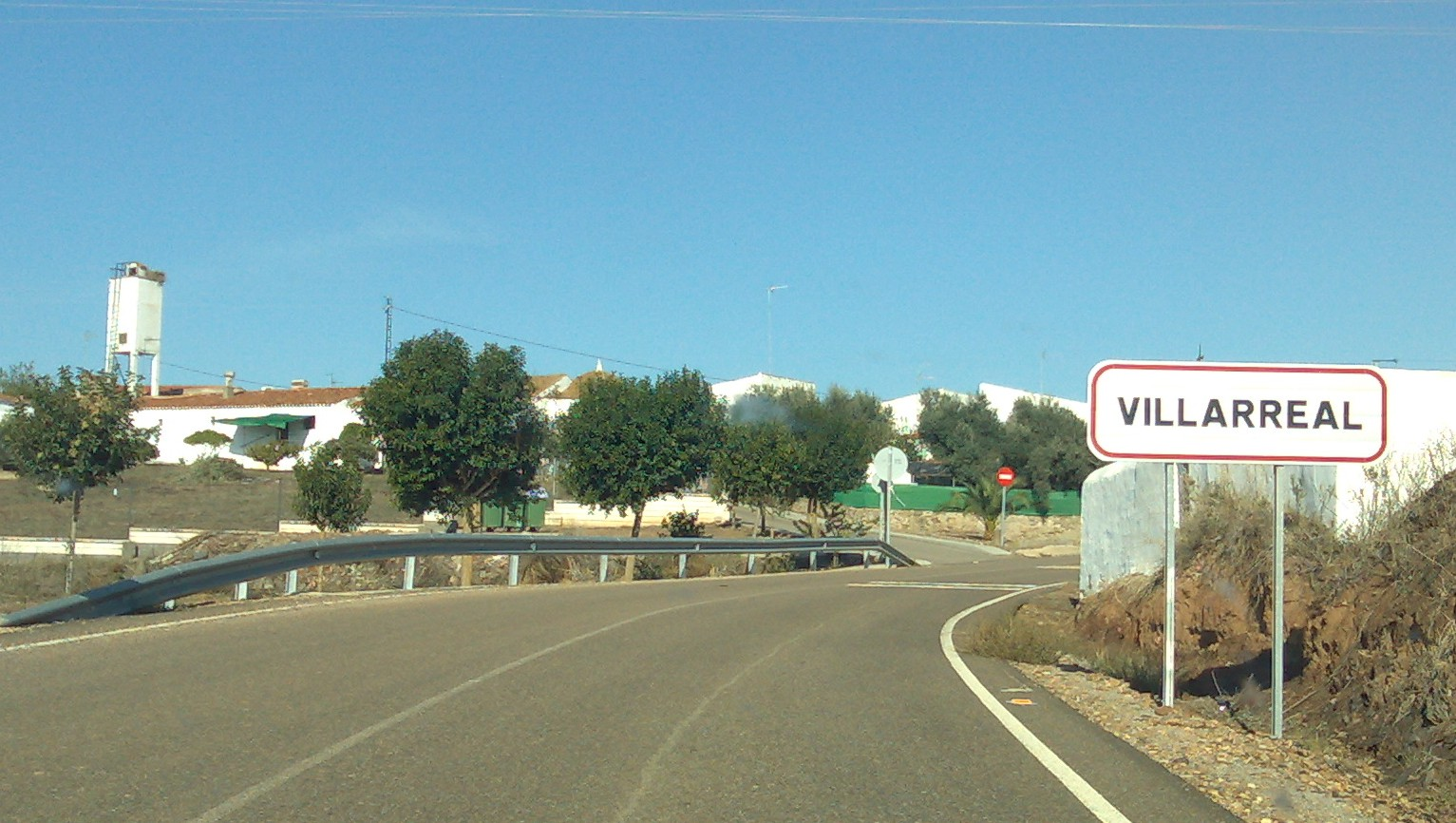 Vila Real (Olivença)